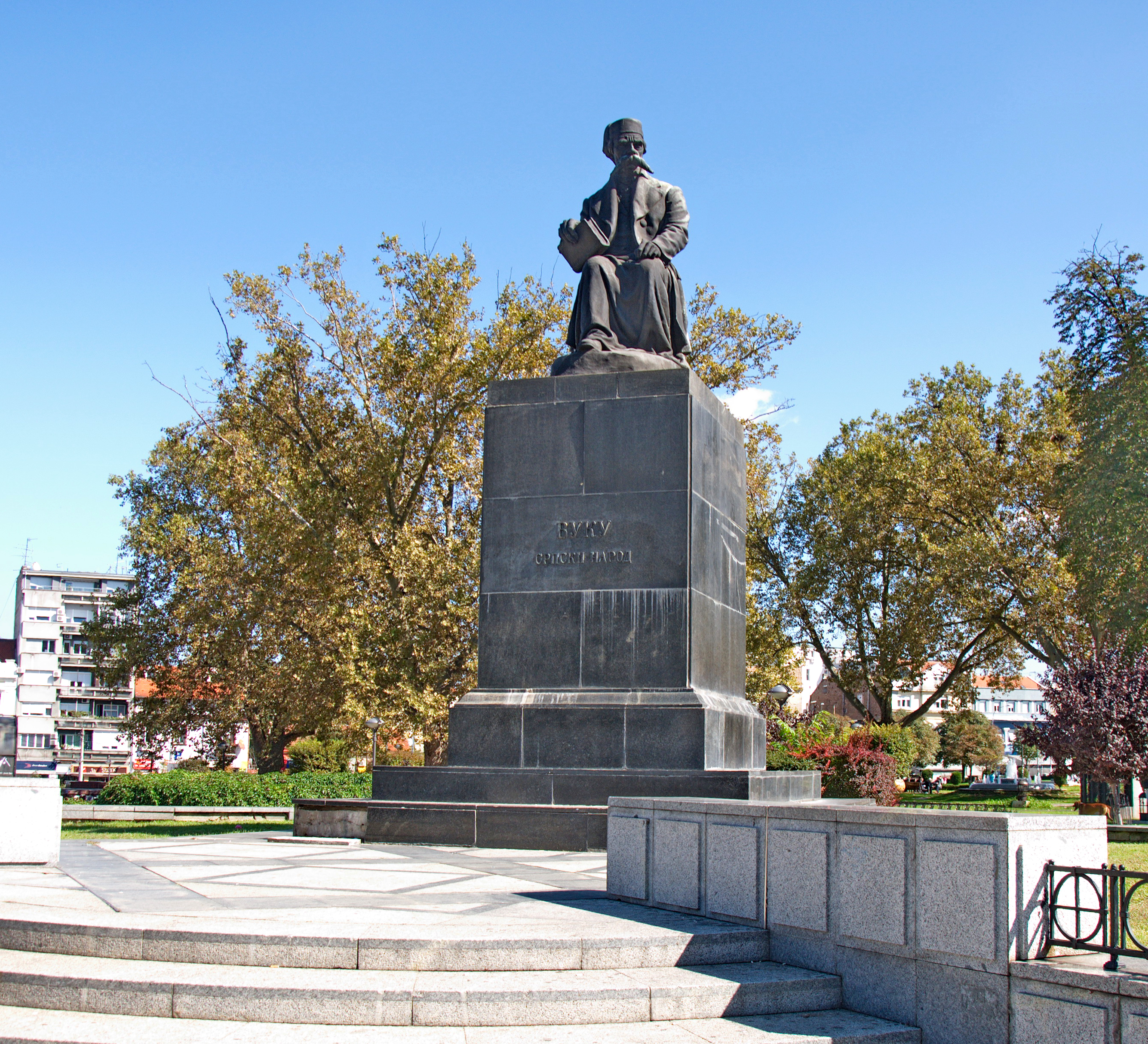 Ideju za podizanje spomenika dala je Srpska književna zadruga 1920. Više godina su, preko priloga, prikupljana sredstva za izgradnju ovog spomenika. Tek je 1932. izlivena figura od bronze i doneta u Beograd. Autor je bio Đorđe Jovanović. Spomenik je visok 7,25 metara, a otkriven je 7. novembra 1937. godine, povodom 150 godina od rođenja Vuka Karadžića. Po ovom spomeniku nazvana je podzemna železnička stanica "Vukov spomenik", a ceo kraj grada se naziva "kod Vuka".